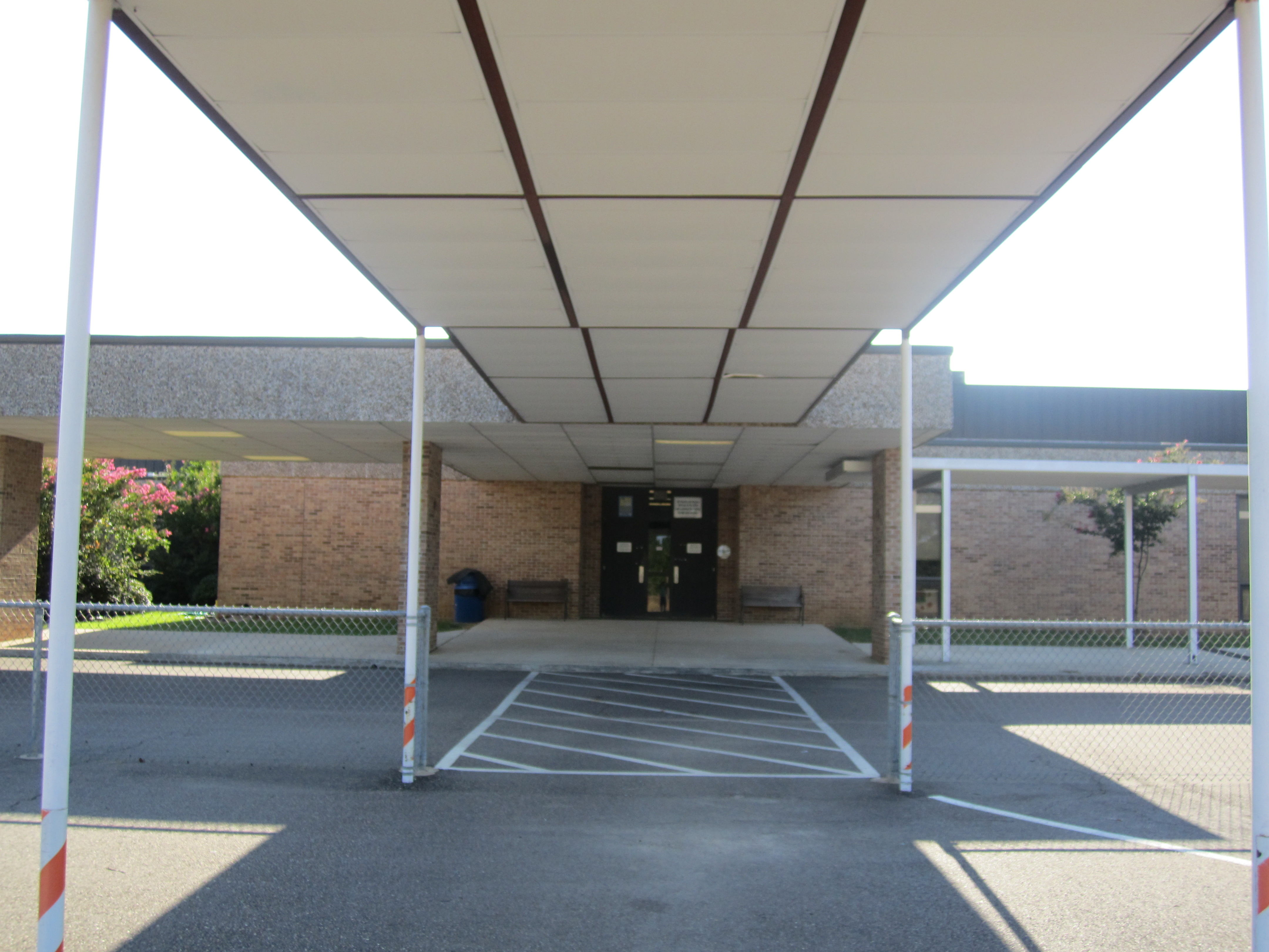 I took photo with Canon camera in Ringgold, LA.